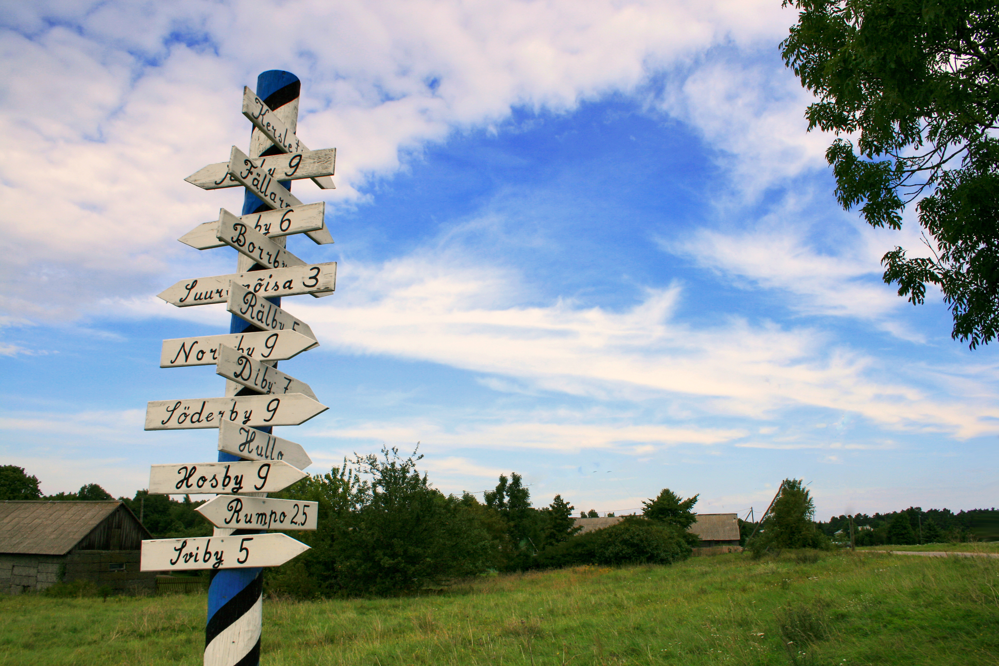 Vormsi Parish